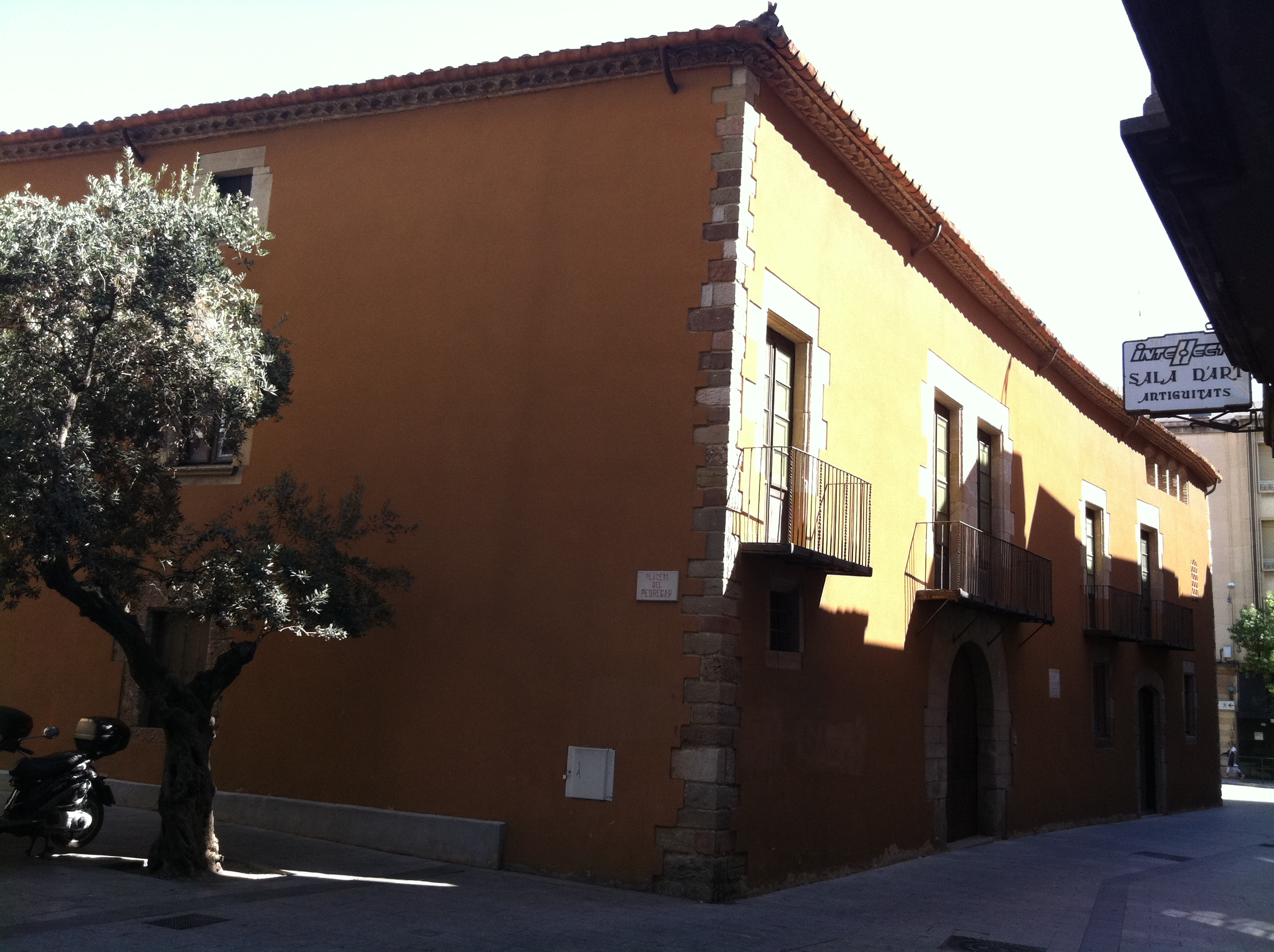 Casa Duran, Sabadell